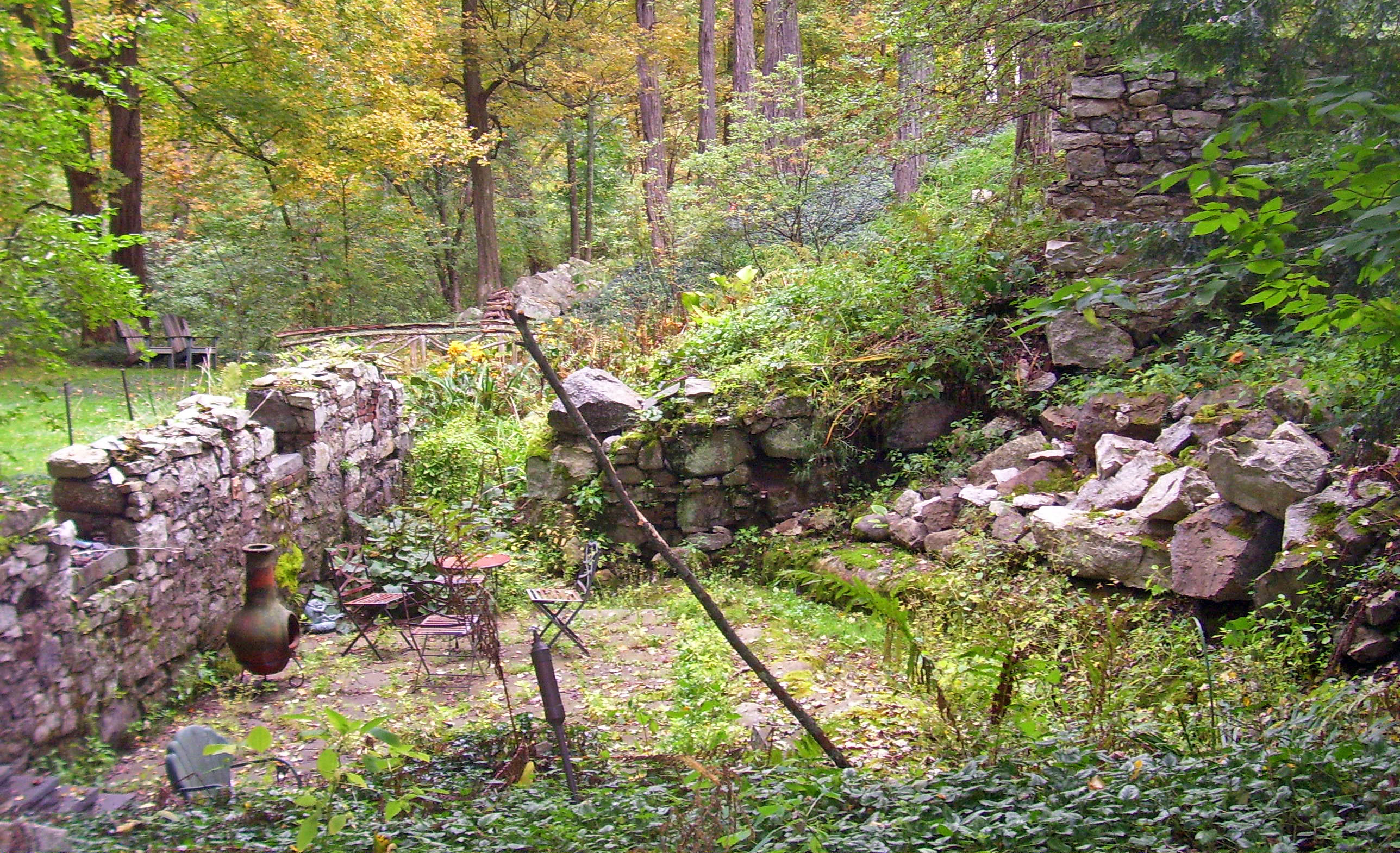 Canal Store Ruin, High Falls, NY, USA